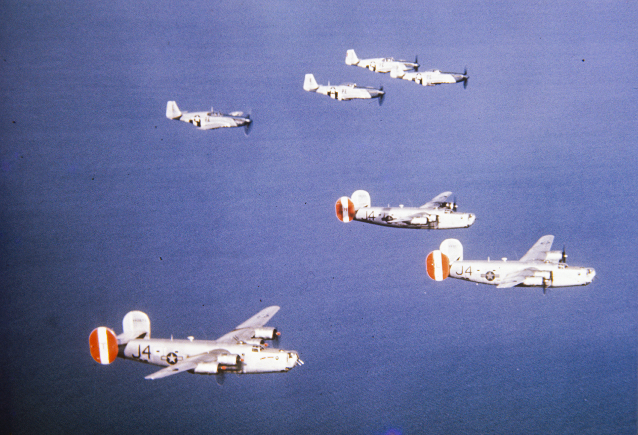 B-24 Liberators of the 458th Bomb Group are escorted by P-51 Mustangs of the 352nd Fighter Group.